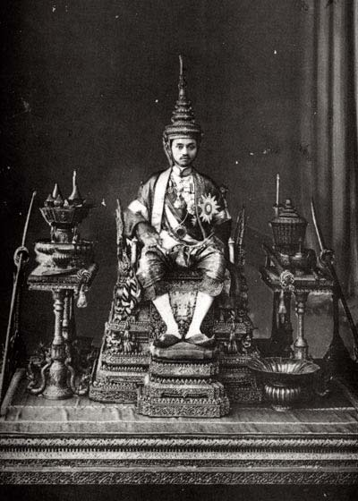 Photograph of King Prajadhipok (Rama VII) at his coronation on 25 February 1926